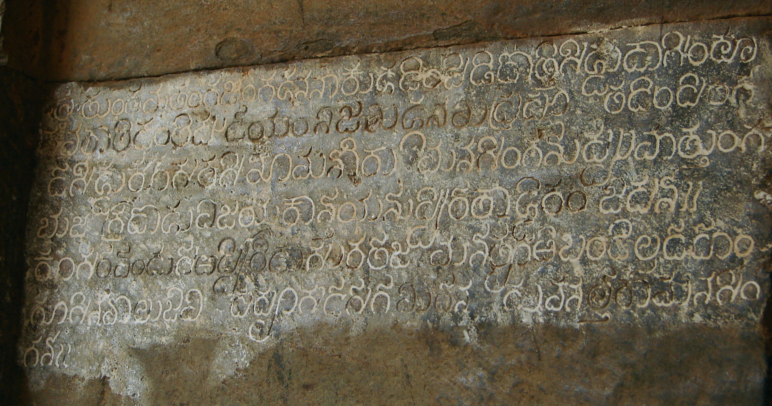 This photograph of an old Kannada verse inscription (from late 11th century or early 12th century, source:Gazetteer of the Bombay Presidency: Dhárwár, vol xxii, pp. 653-654, editor: James Campbell, Government Central Press, 1884 - Bombay (Presidency)) was taken by self (Dinesh Kannambadi) at the Nagaresvara temple (also known as Arvattukambhada Gudi) in Bankapura, Haveri district, Karnataka state, India in July 2007